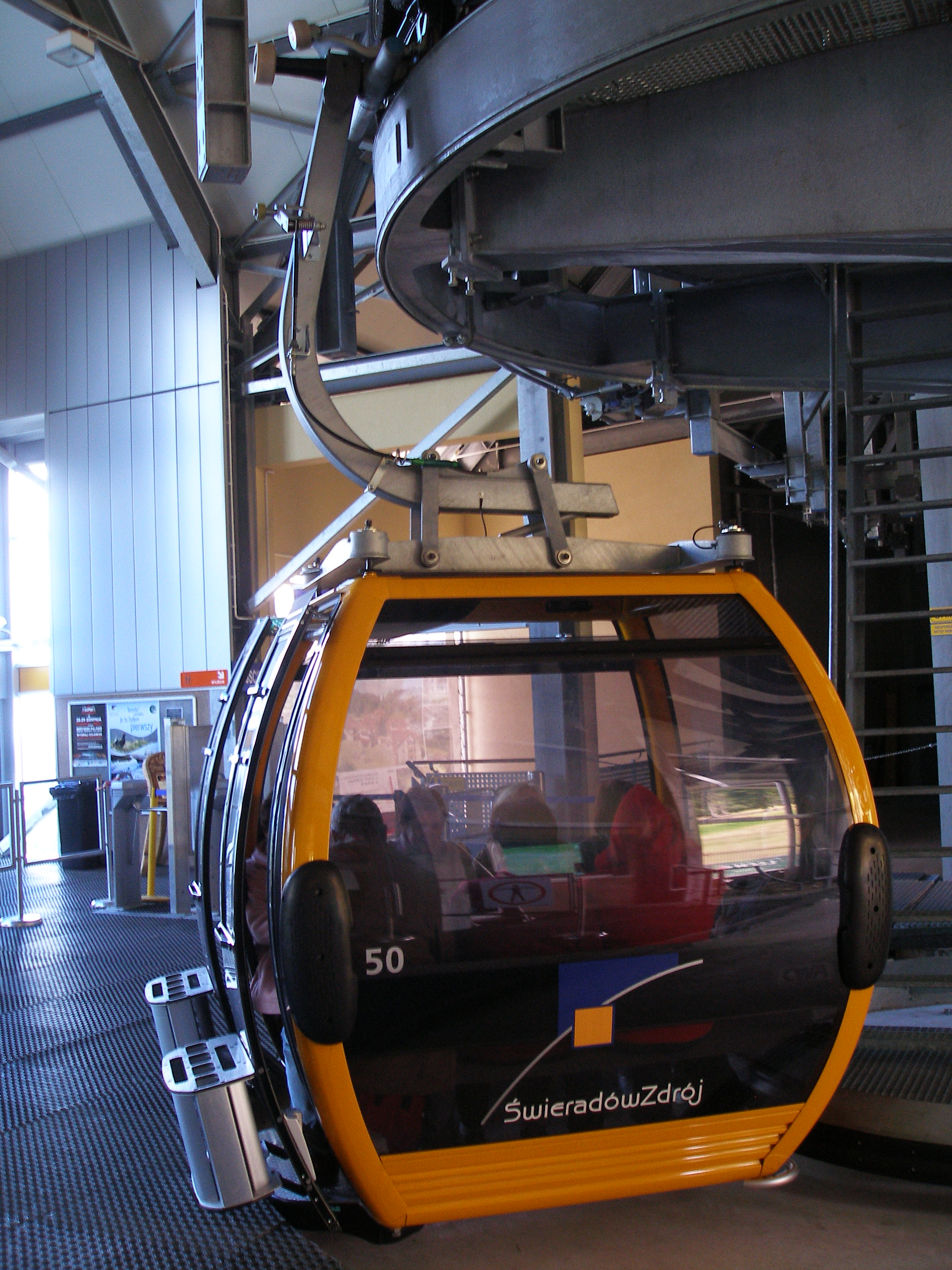 Cableway to Stóg Izerski, Poland.